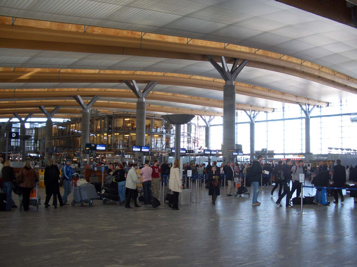 Oslo Airport check-in hall